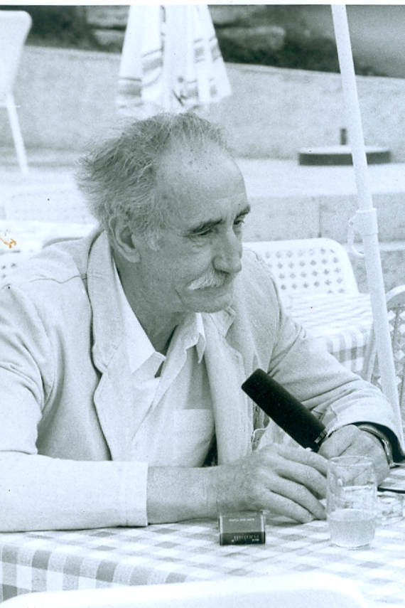 Ranko Munitić (1943-2009), right, with Zaim Muzaferija